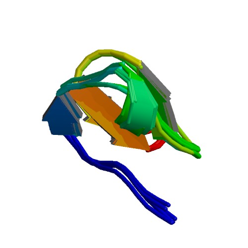 Chemical structure of heteroscodratoxin-1